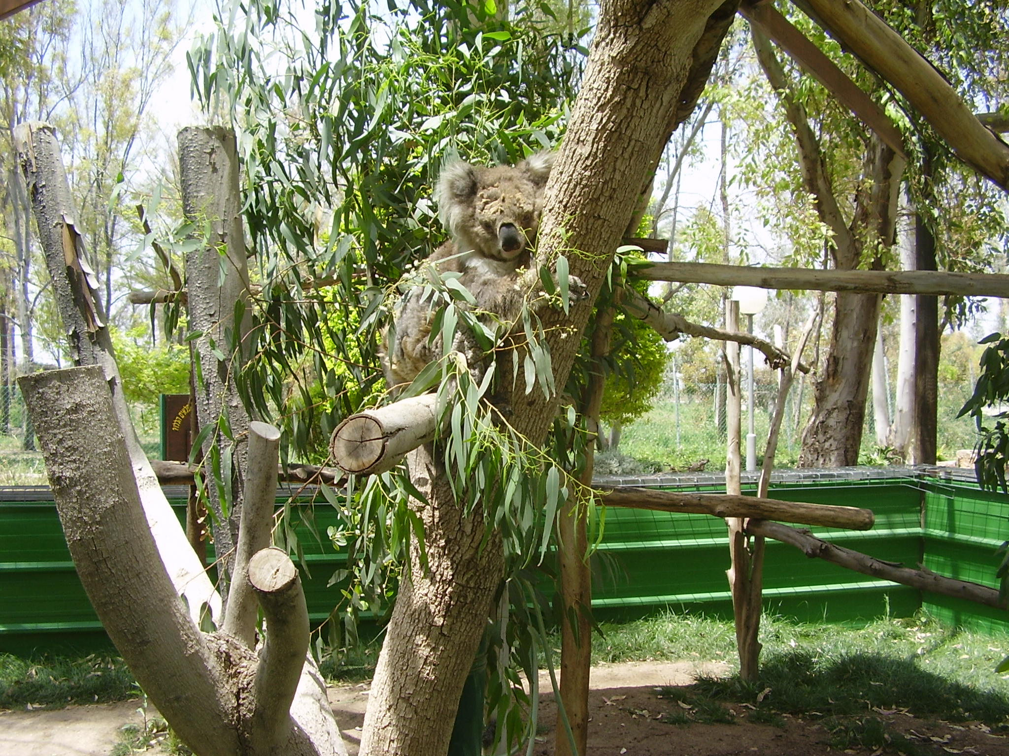 koala in australia park (guru park), israel